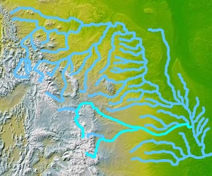 Locator Map of the Platte River Watershed — in Colorado and Nebraska. A tributary of the Missouri River